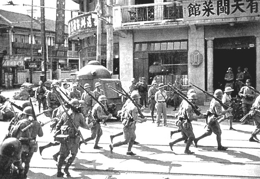 Japanese marines during the Battle of Shanghai, 1937.